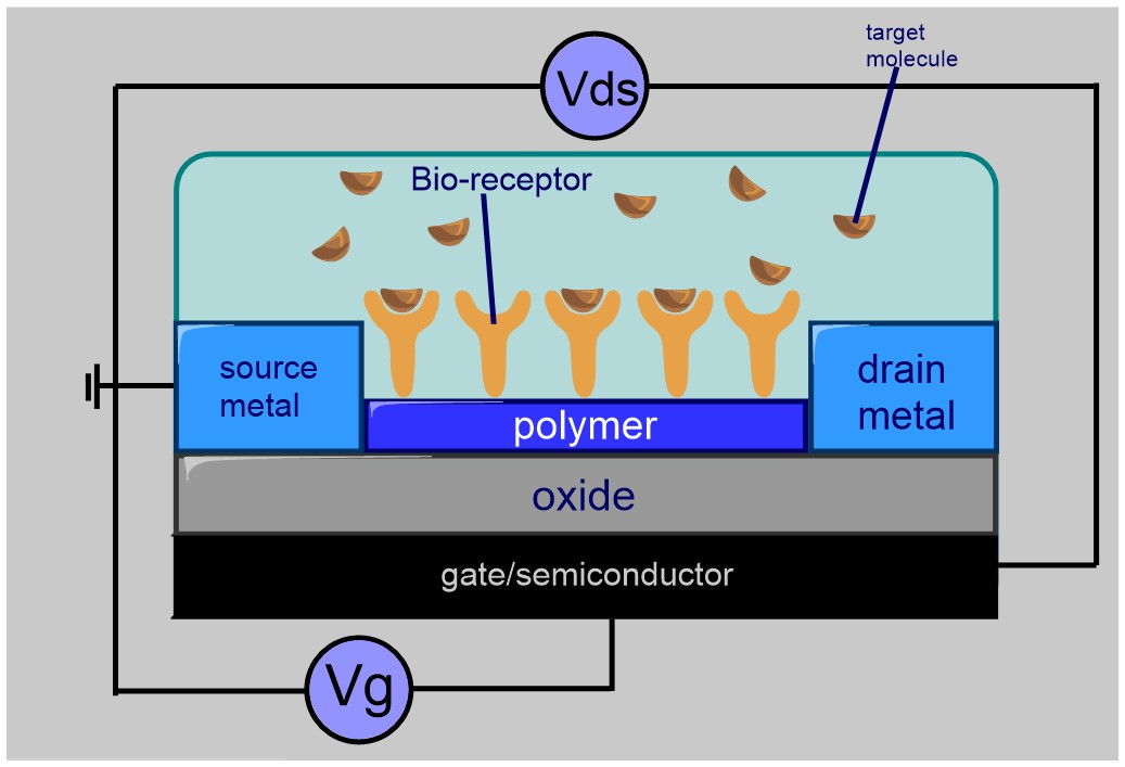 BioFET